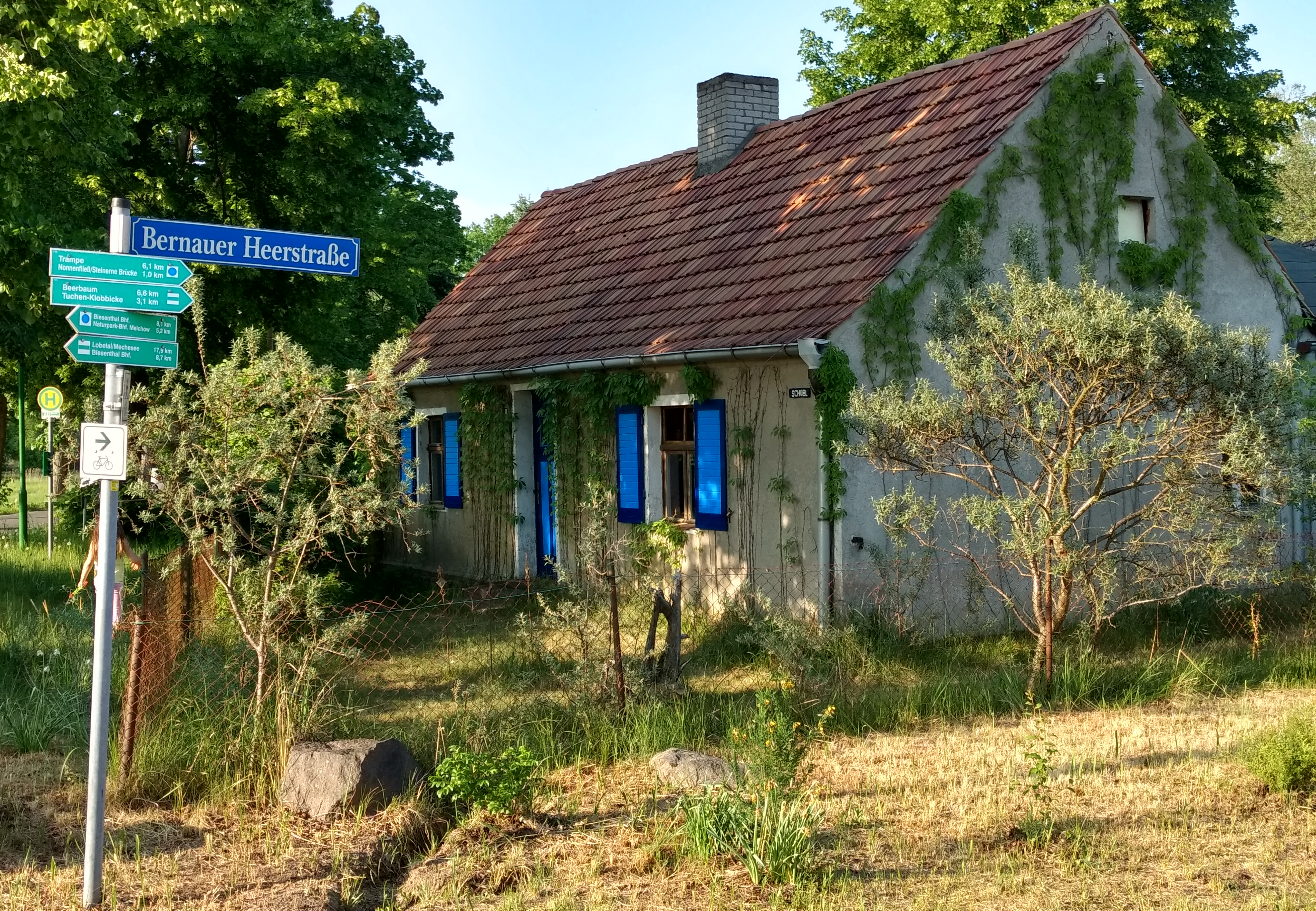 Bernauer Heerstrasse in Schönholz (2018, may)